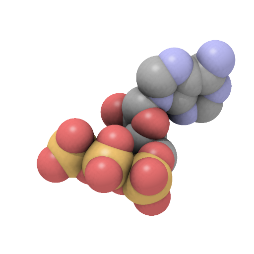 SpaceFill representation of Adenosine triphosphate. Done using the real time open source QuteMol system.